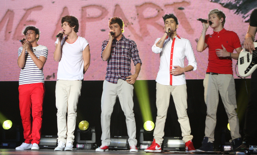 One Direction performs at Hordern Pavilion, Moore Park, Sydney, Australia 2012.